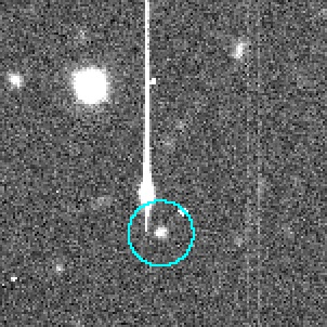 Photograph of Setebos, a moon of Uranus.